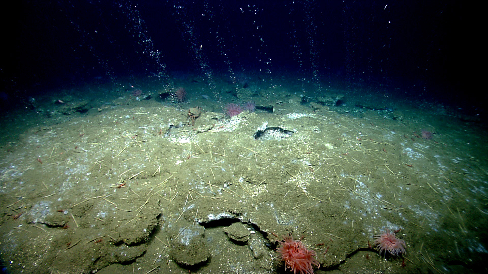 A spectacular image of methane bubbles rising above a cold seep site. Methane bubbles flow in a small stream out of the sediment on an area of seafloor offshore Virginia north of Washington Canyon. Quill worms, anemones, patches of bacterial mat, pandalid shrimp, and a large red crab (Chaceon quinquedens) can be seen in and along the periphery of the seepage area. Image ID: expn0686, Voyage To Inner Space - Exploring the Seas With NOAA Collect Location: Virginia, north of Washington Canyon Photo Date: 20130531T140638Z Credit: NOAA OKEANOS Explorer Program , 2013 ROV Shakedown and Field Trials